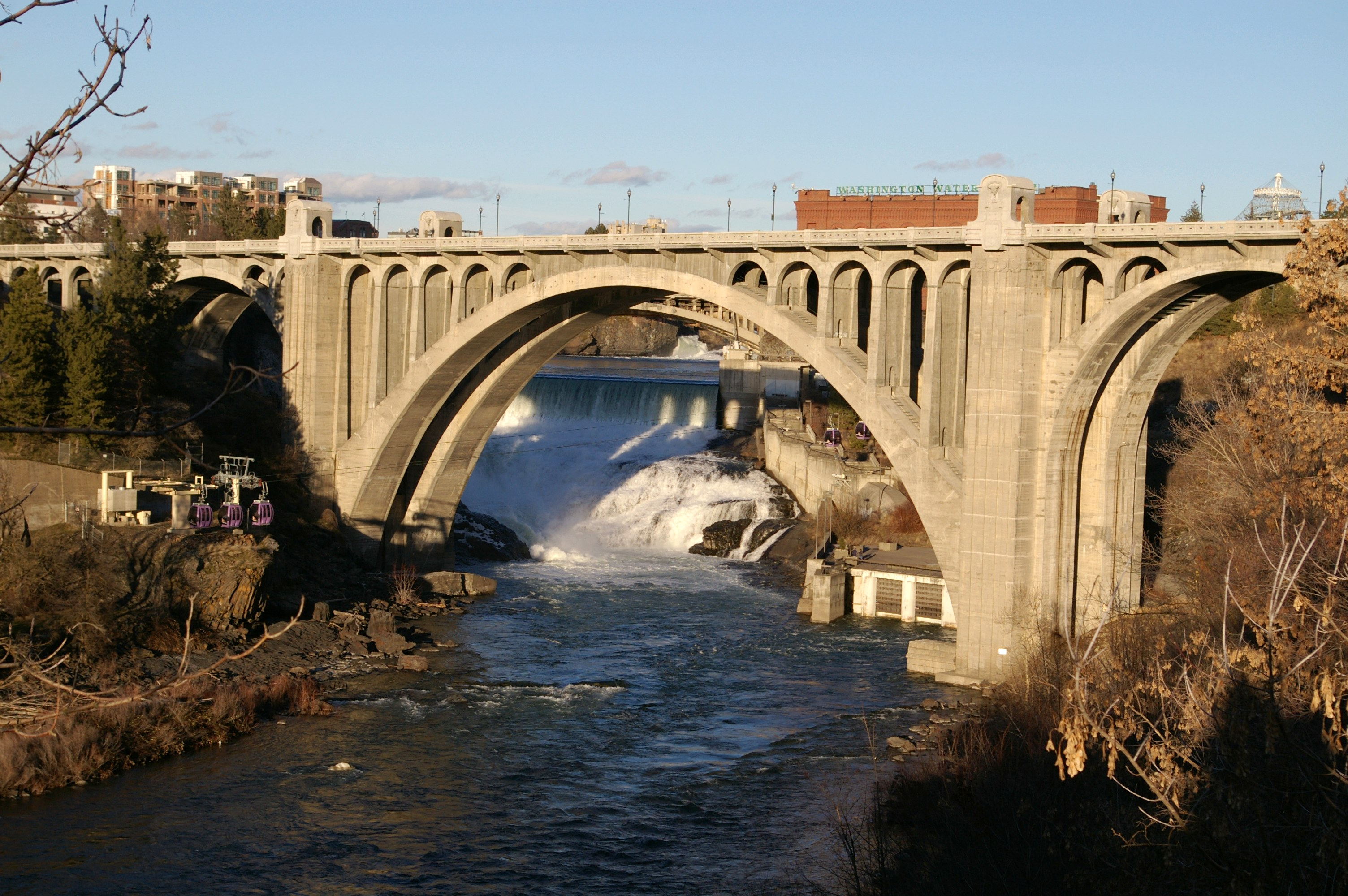 The Monroe Street Bridge, a Spokane landmark